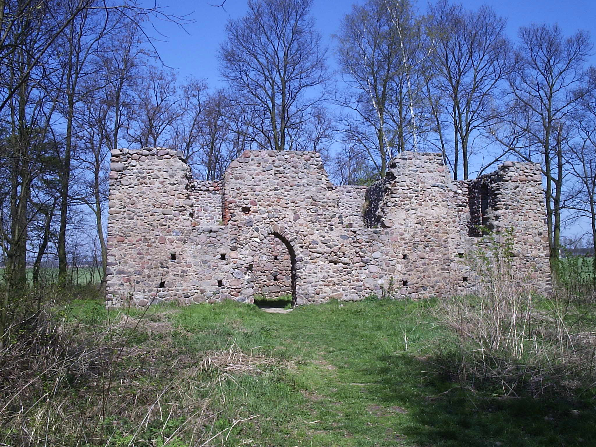 Church in Gryżyna (XIII), Poland